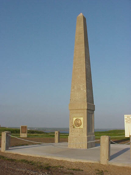 Sacagawea (Sakakawea) Monument — an obelisk in Mobridge, South Dakota.